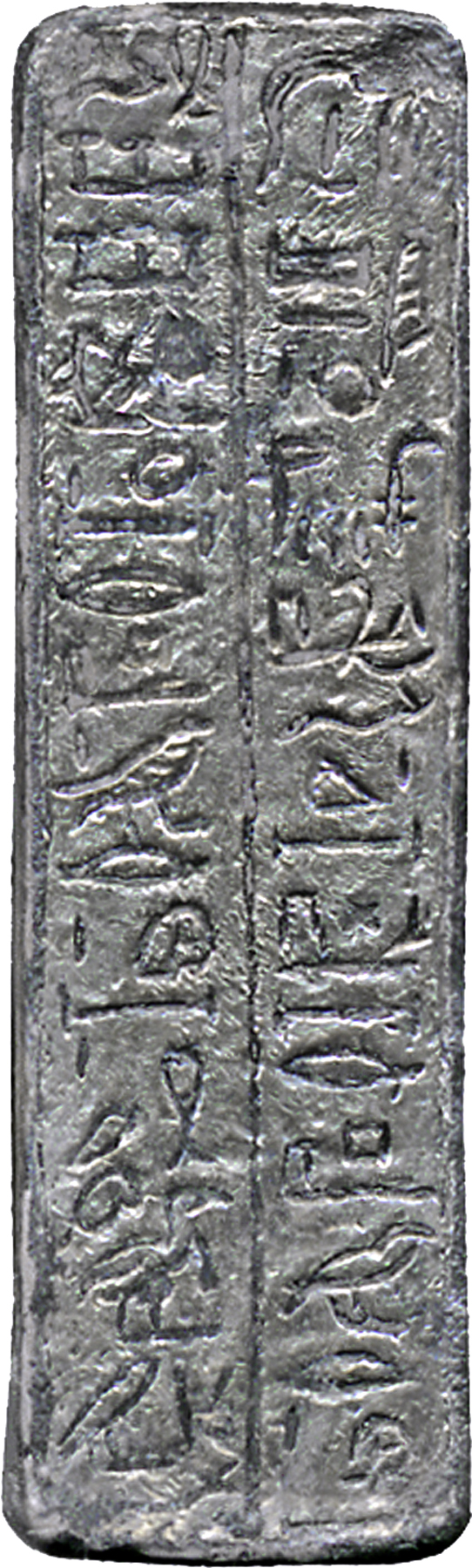 Silver figures such as this one were precious in Ancient Egypt. This small statuette has a loop at the back to be used as a pendant. Amun is displayed with the standard iconography of Amun-Re. He is dressed in a divine shendyt, a collar, and a double feather-crown combined with a sun-disk.